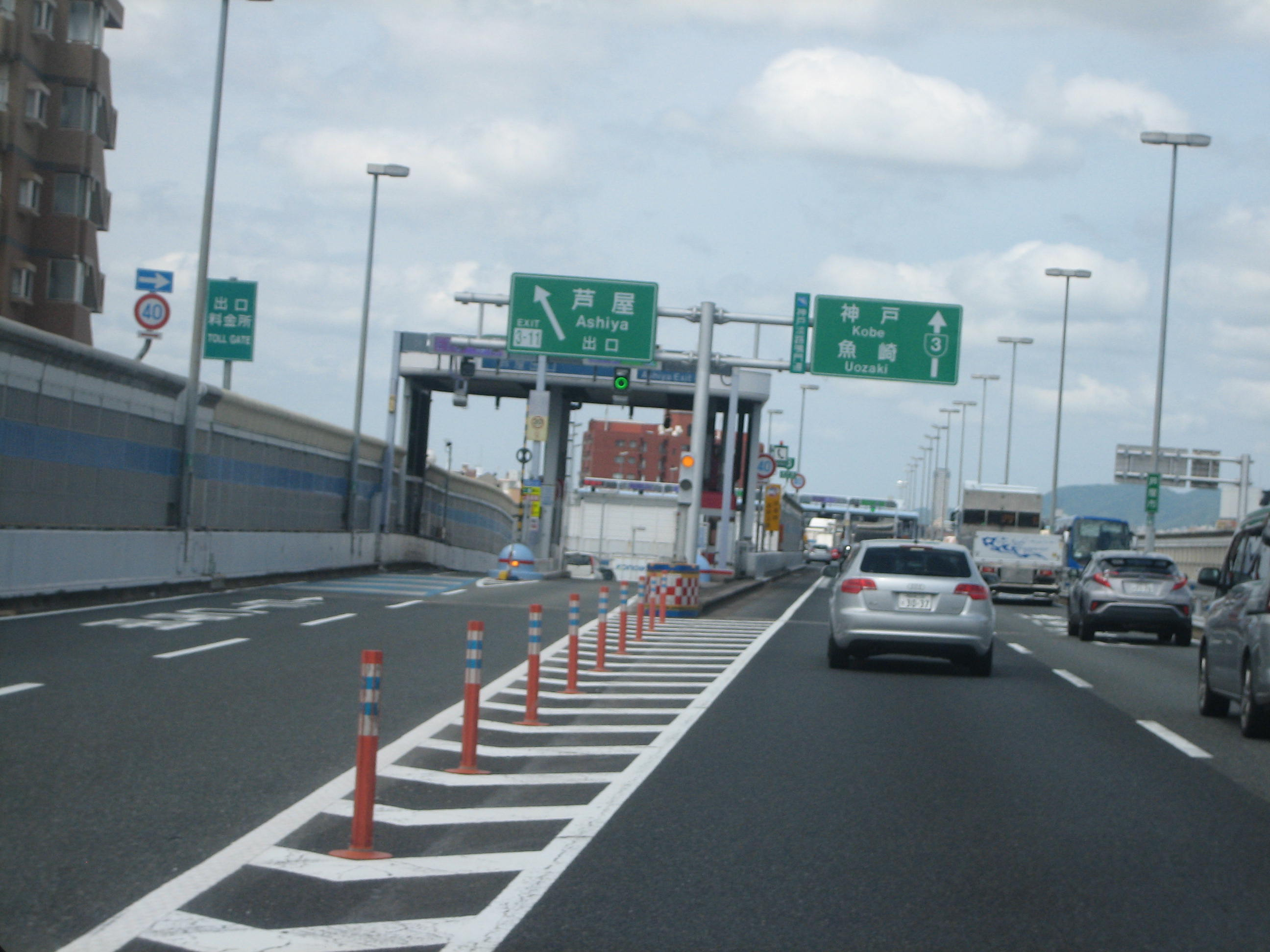 阪神高速3号、芦屋出入口